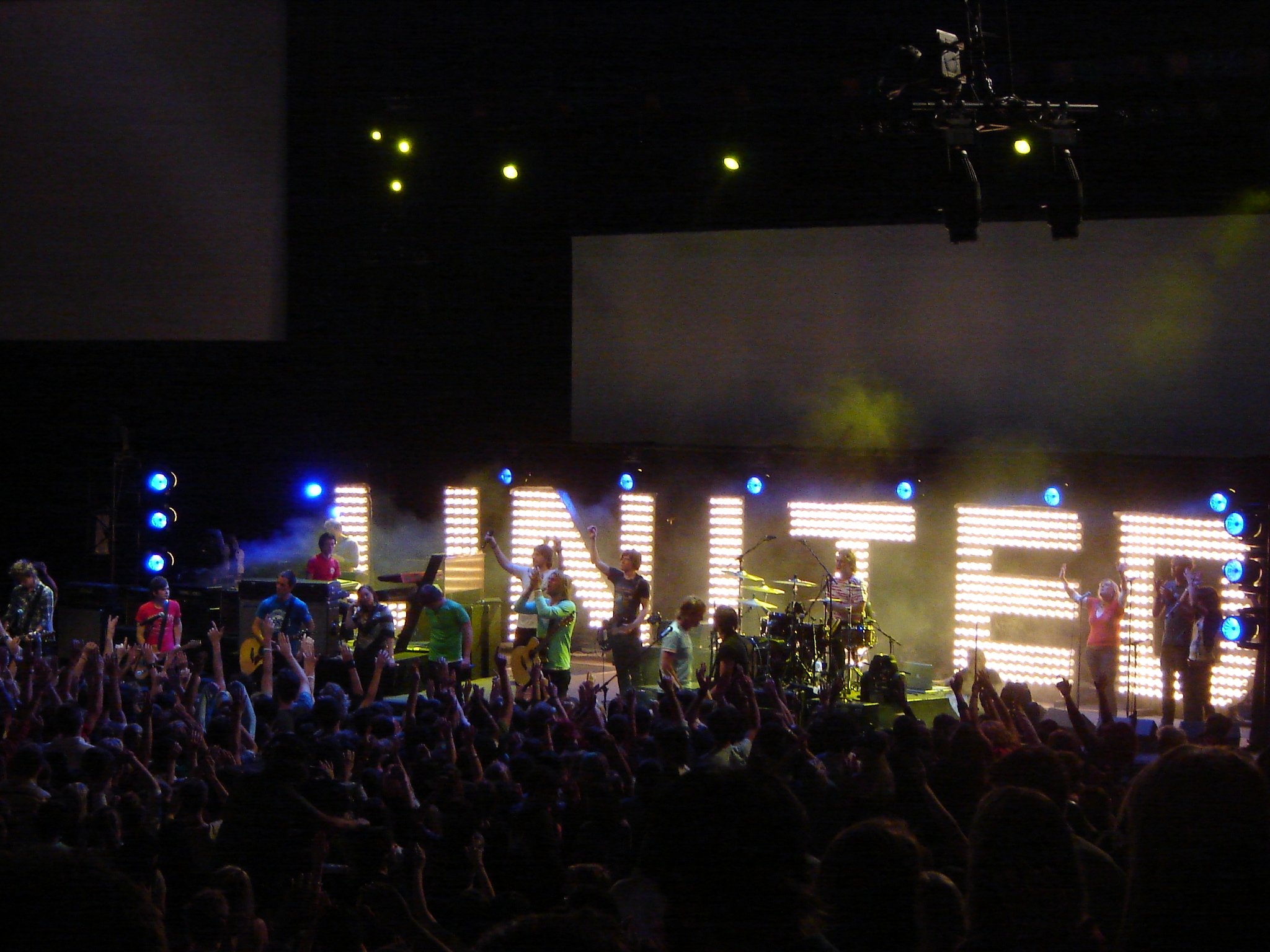 Hillsong United show.